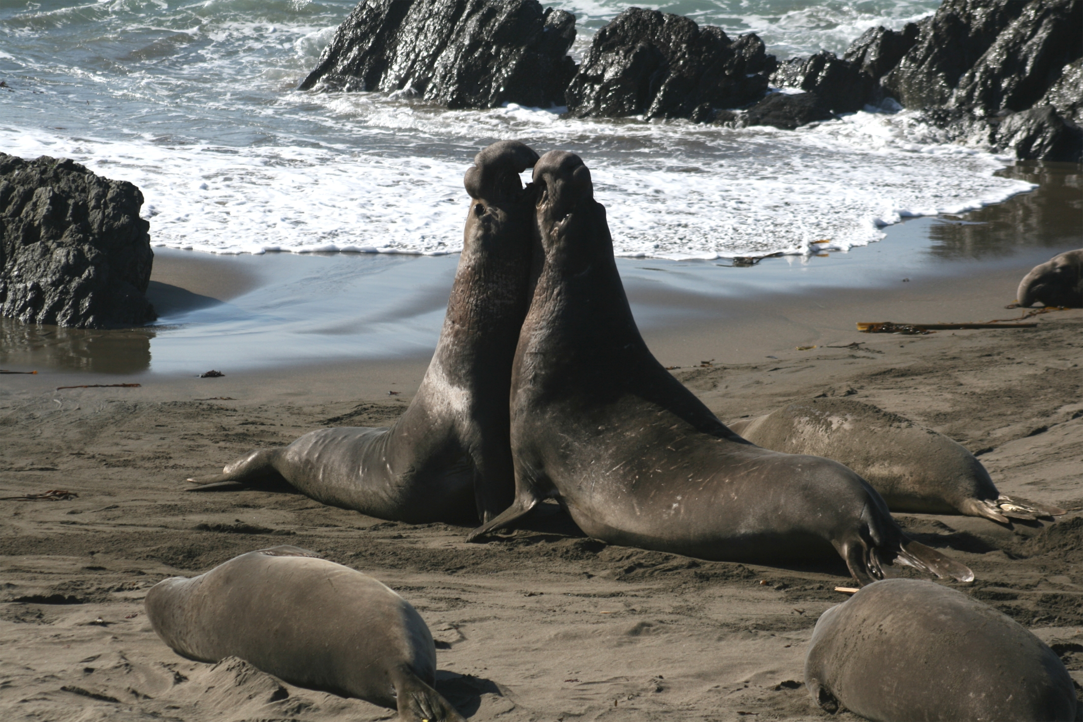 Males Northern Elephant Seals ,California